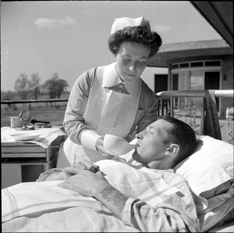 Sanatorium Nursing- Everyday Life at Broomfield Sanatorium, Chelmsford, Essex, England, 1945 A nurse uses a spouted cup to feed a patient in the sunshine of an open air 'ward' of Broomfield Sanatorium, Chelmsford. This patient has been ordered complete bed rest, and so cannot sit up to drink.